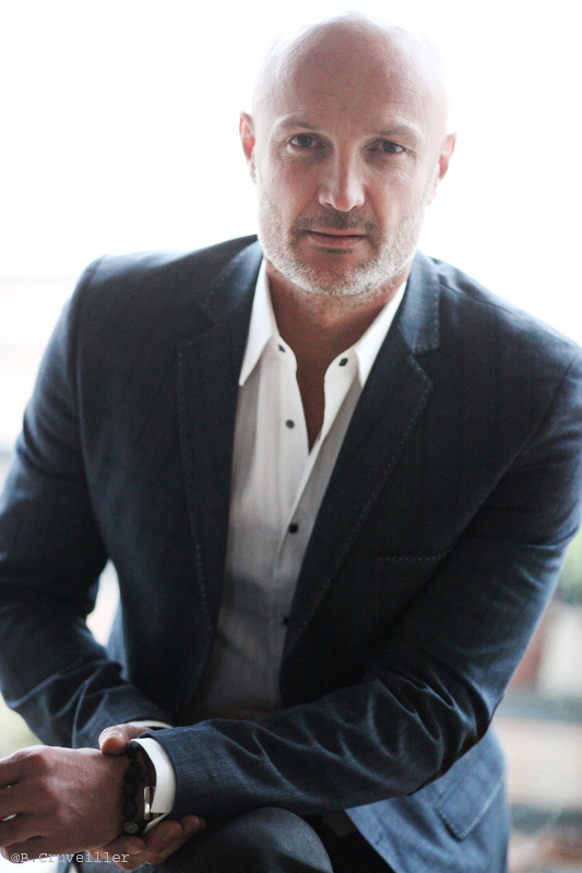 Picture of Frank Leboeuf